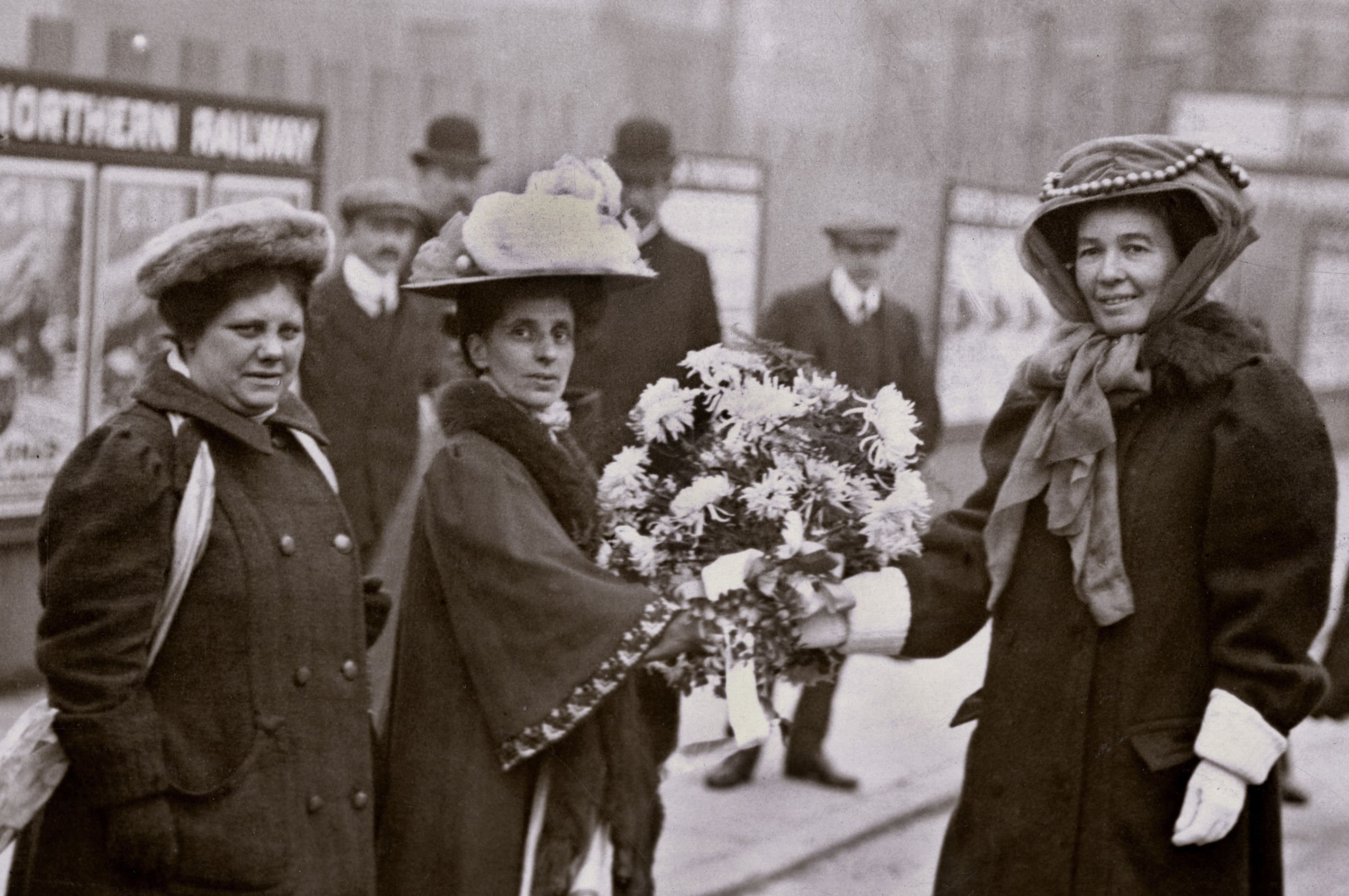 7JCC/O/02/130 Photograph, printed, paper, monochrome, left to right : Frederick Pethick Lawrence, Flora Drummond, Jennie Baines and Emmeline Pethick Lawrence, c. 1906-1910; manuscript inscription on reverse 'Mrs Baines', printed 'Please acknowledge LNA Photo. London News Agency Photos Ltd, 46 Fleet Street, EC'